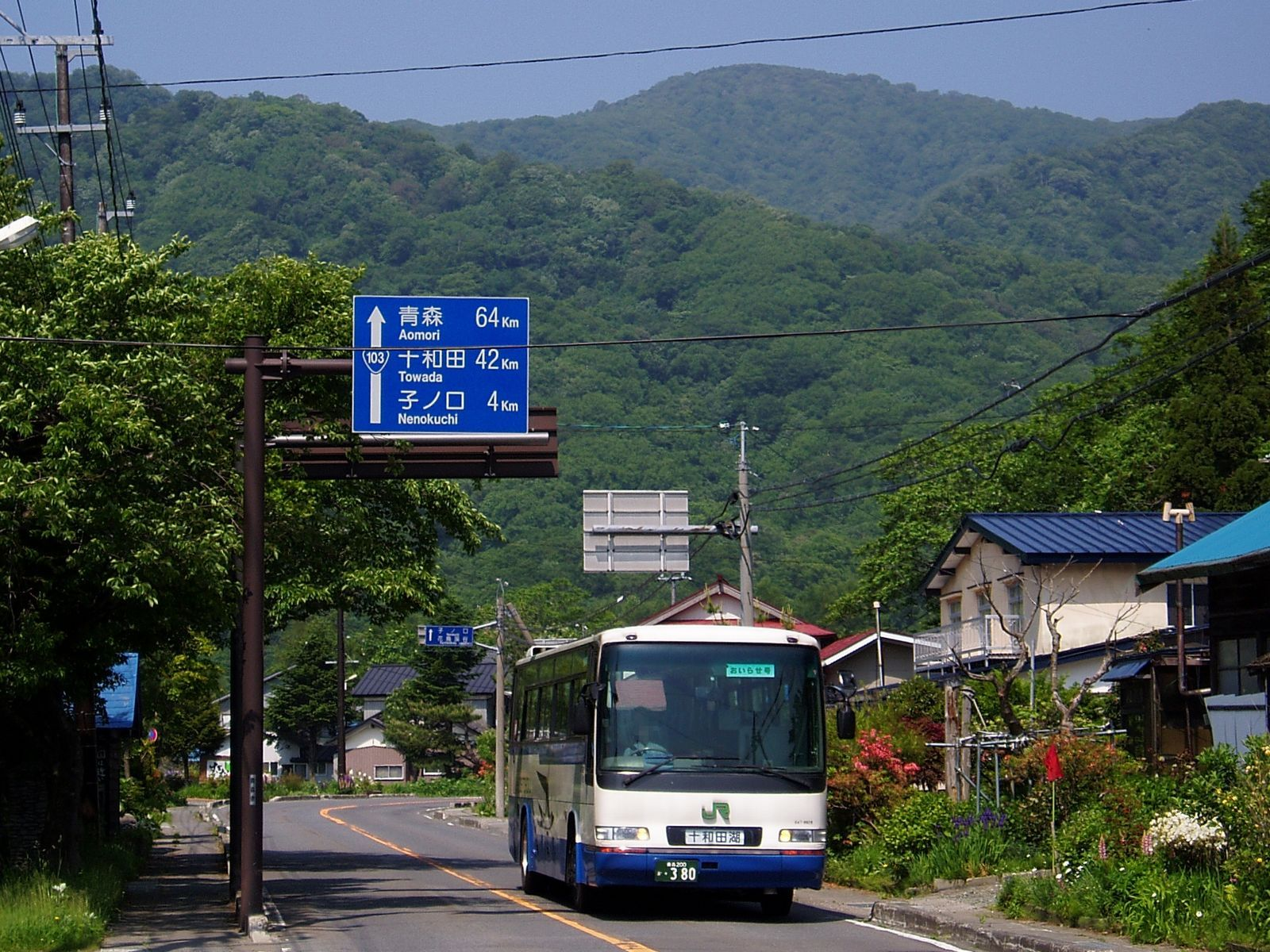 JR Bus Tohoku 647-9928 "Oirase" Hino KC-RU3FSCB at Utarube in Aomori City